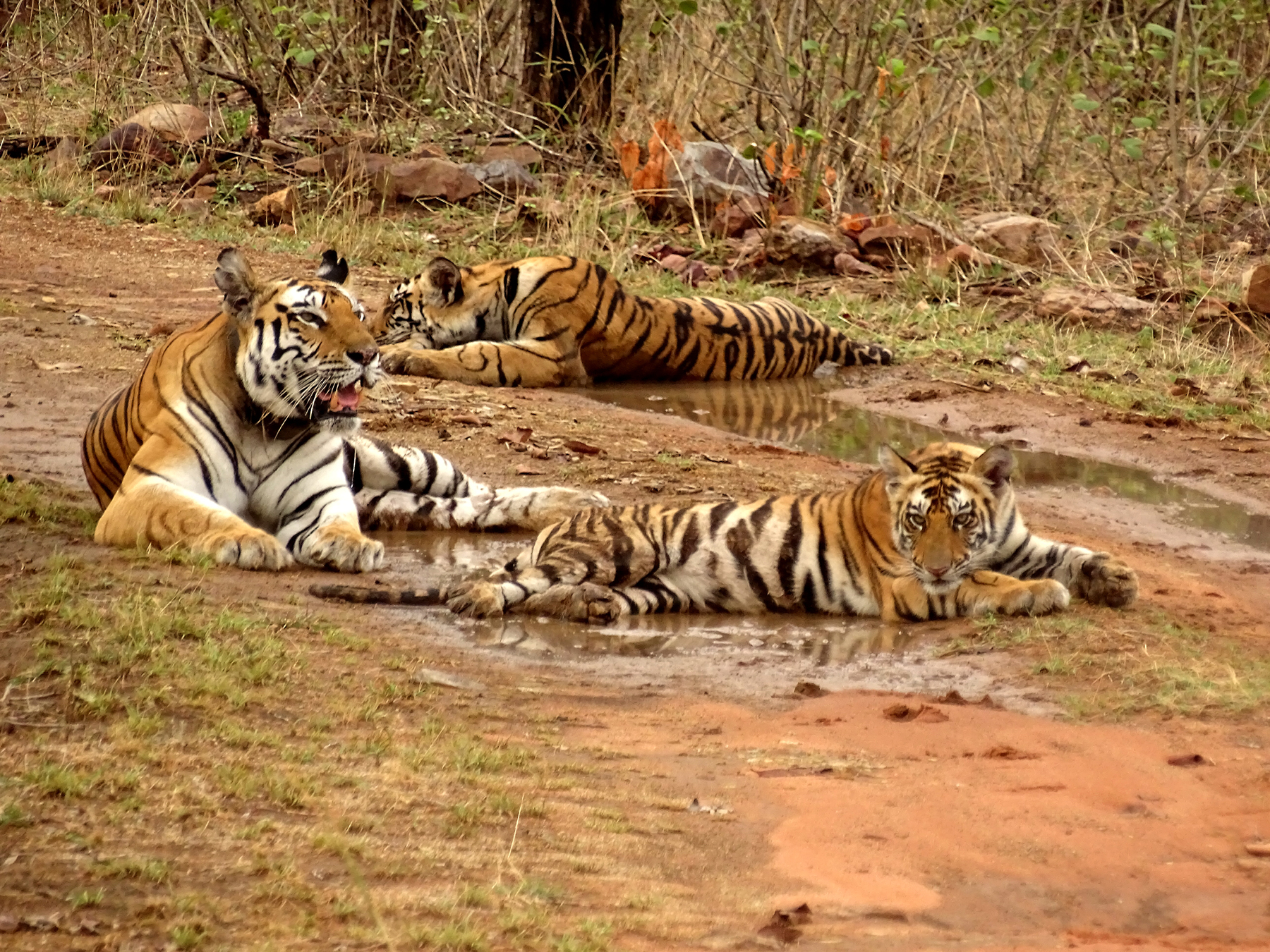 Mother tigress with her two cubs in Panna National Park, Madhya Pradesh.